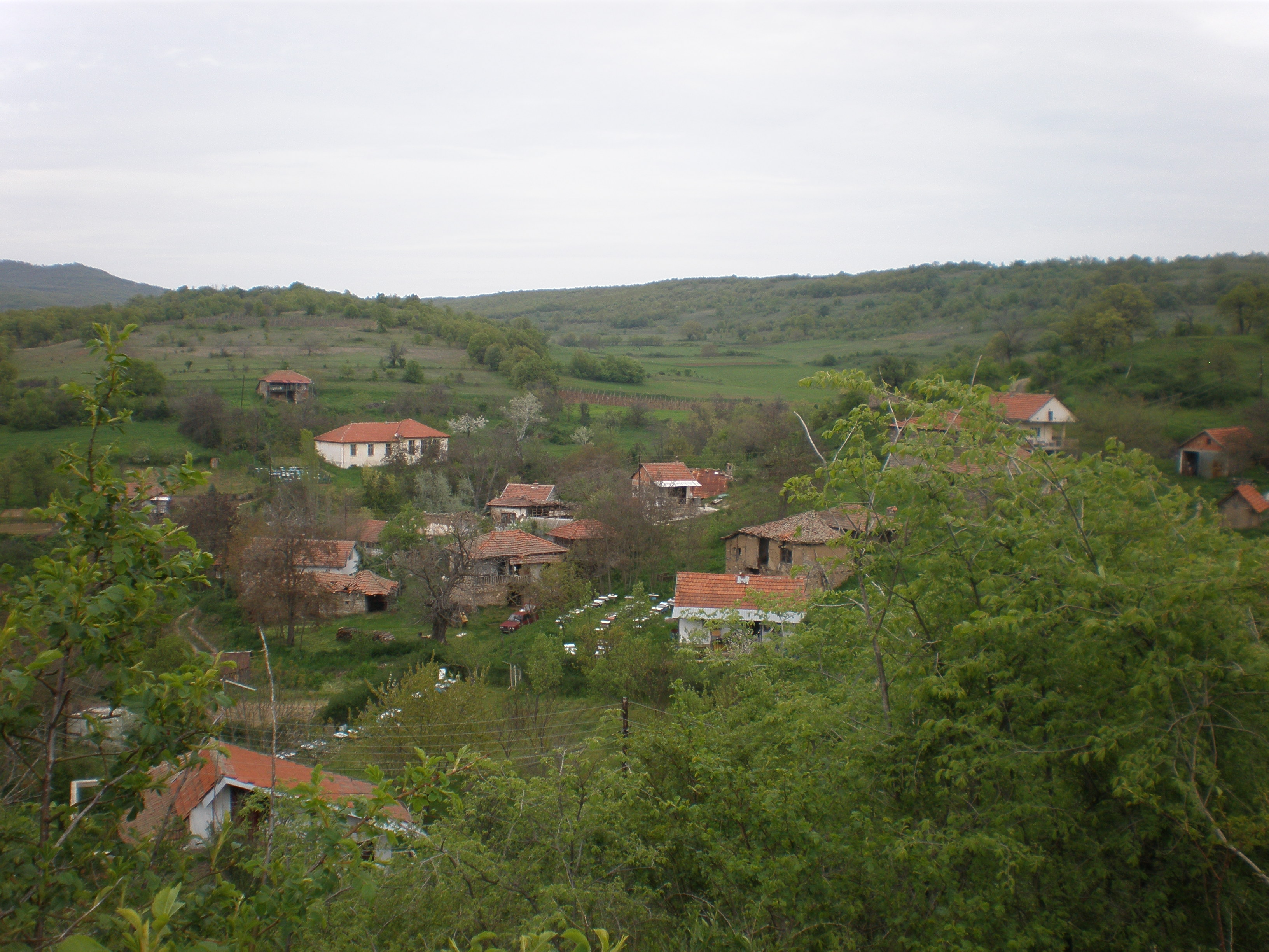 View of a part of the village of Dzidimirci, Veles region, Macedonia